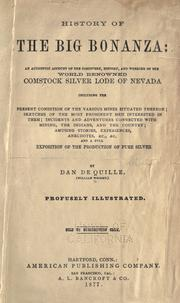 Cover of first edition, History of the Big Bonanza